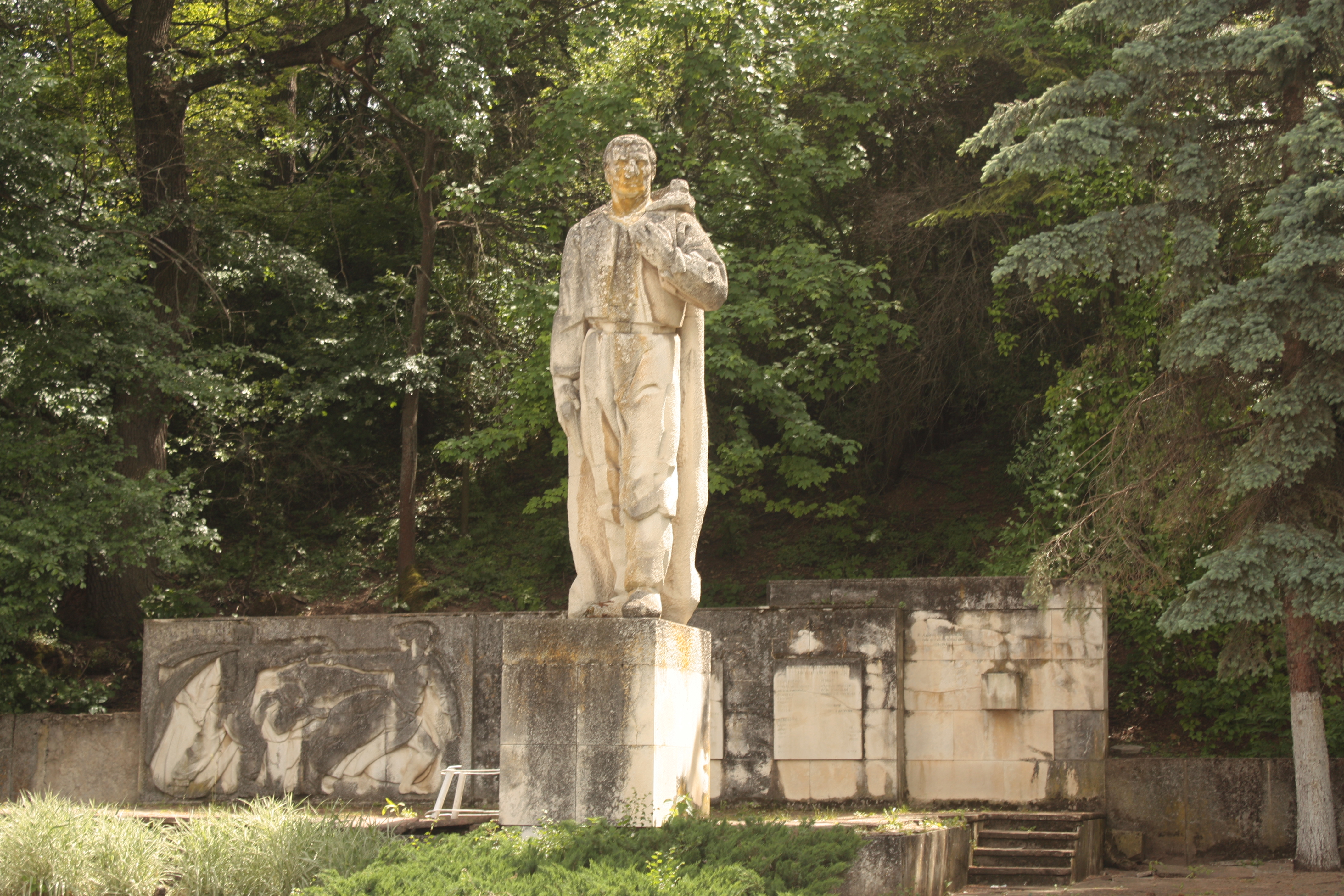 Partisan monument in Izvor Pernik Province